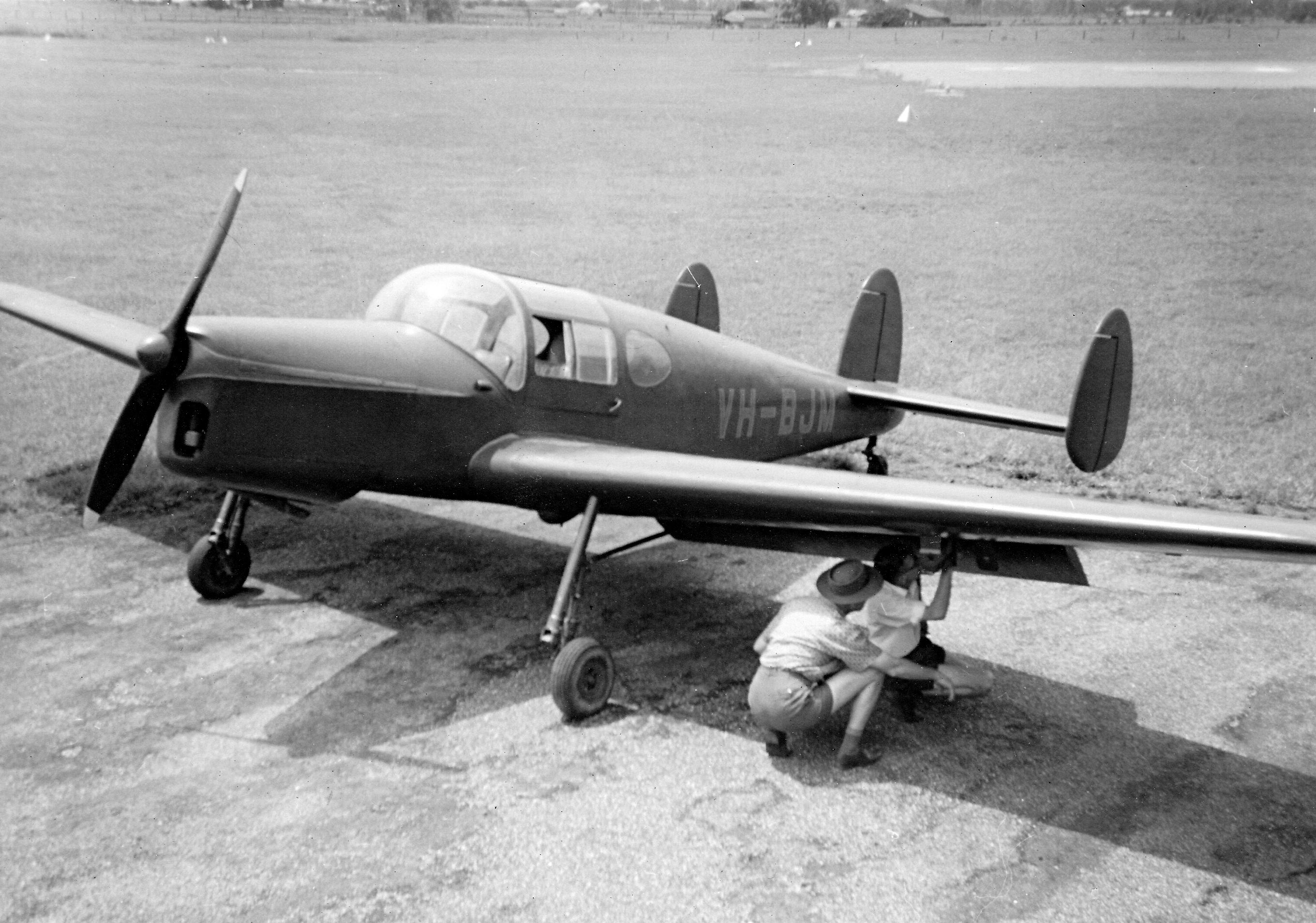 Miles Messenger VH-BJM being preflighted by its owner Sam Hecker at Maryborough airport, Queensland, Australia, 1963. This example is believed to have been sold to a New Zealand owner.